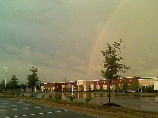 Shows Hickory Ridge High School in Harrisburg NC with a Rainbow after a storm in spring with the rainbow centered on the main front of the school by Jennifer Tisdale.